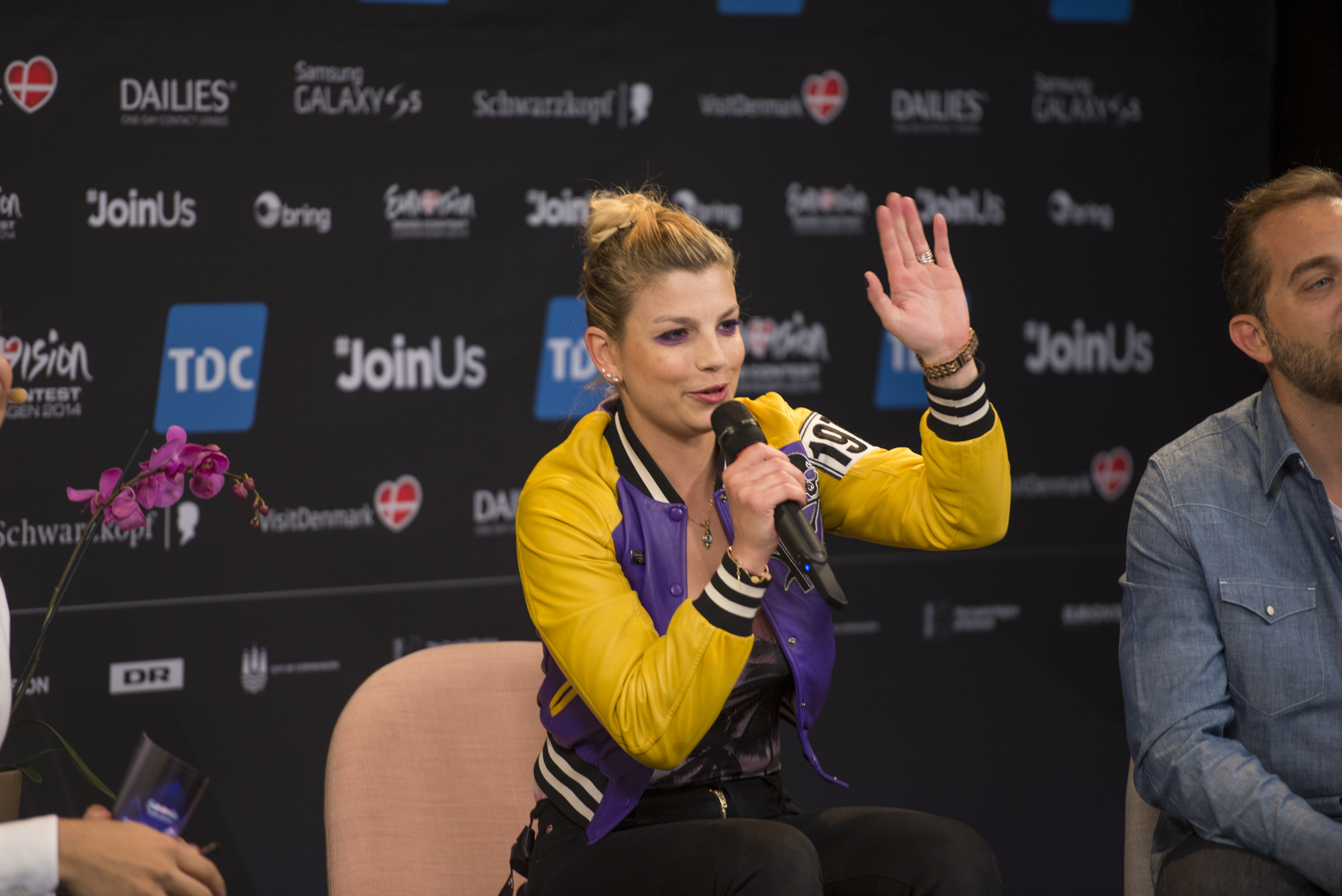 Emma Marrone at a Meet & Greet during the Eurovision Song Contest 2014 Copenhagen. (Help translate this text)